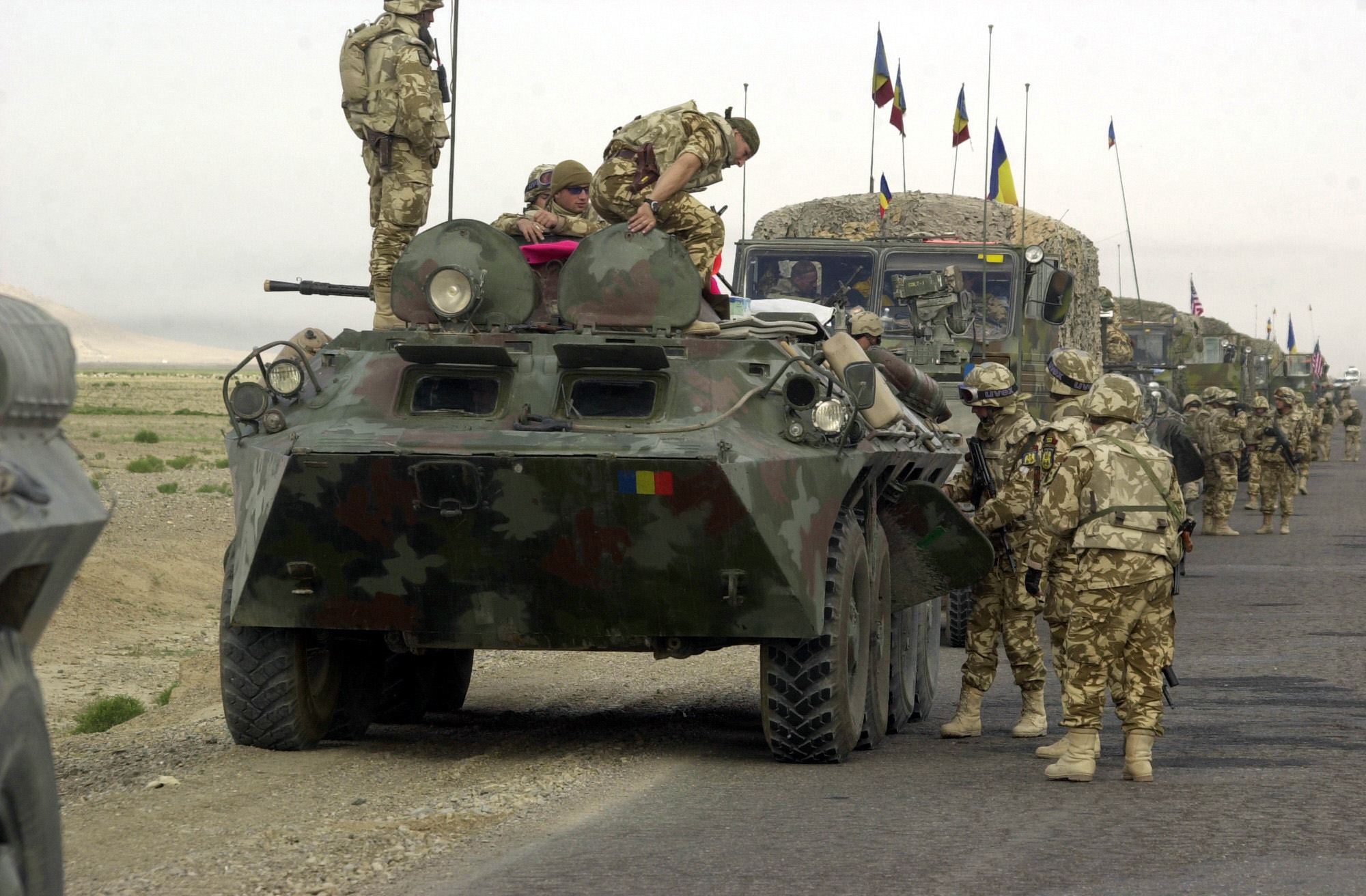 A Romanian Army Soldiers enter the top and side hatches of their TAB-77 (8X8) Armored Personnel Carrier (APC), as they prepare to lead a convoy of multi-national vehicles from Kandahar Airfield to Kabul, the capital of Afghanistan. The purpose of the convoy is to gather information and to help with a road reconstruction project in Afghanistan during Operation ENDURING FREEDOM.